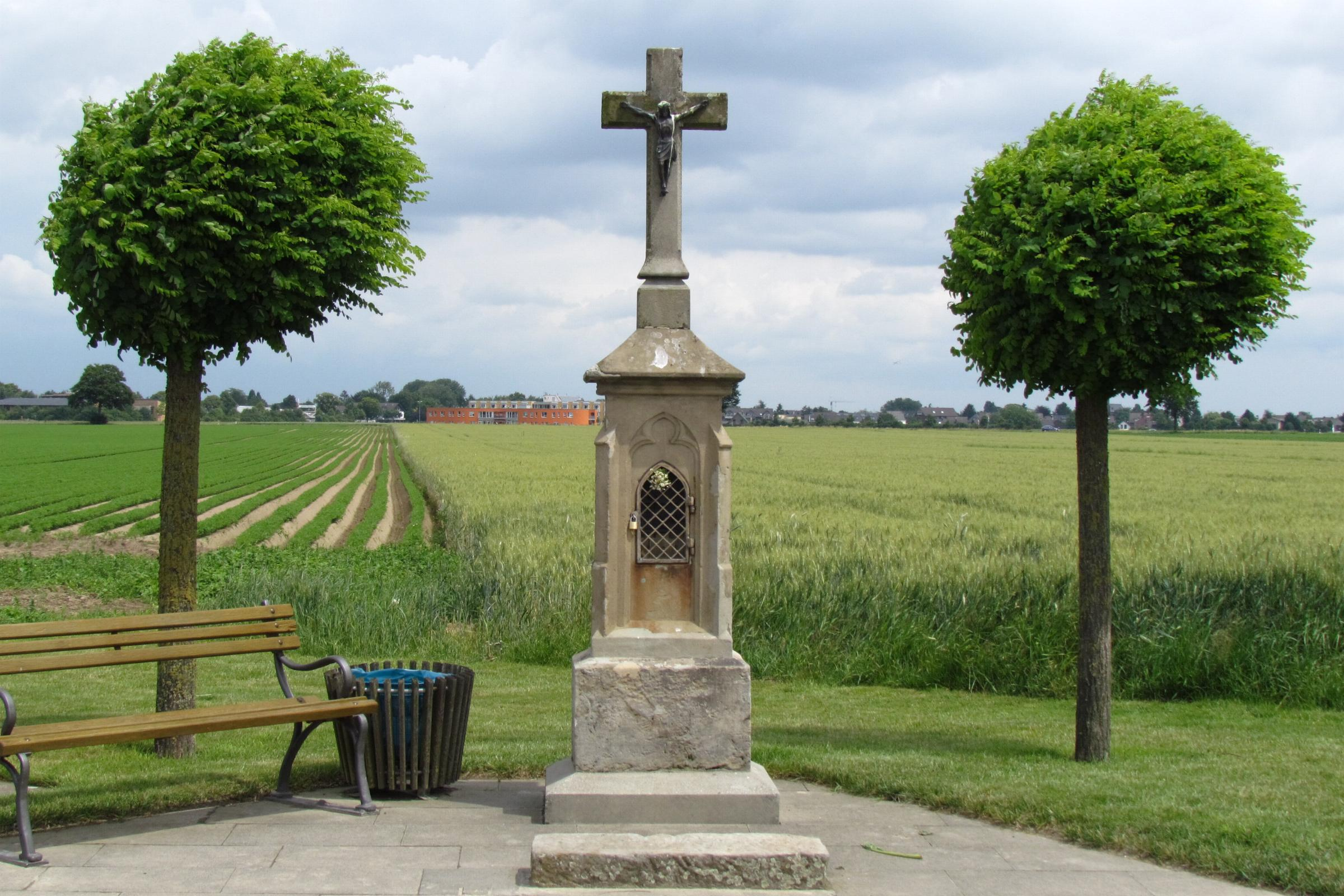 This is a photograph of an architectural monument.It is on the list of cultural monuments of Korschenbroich